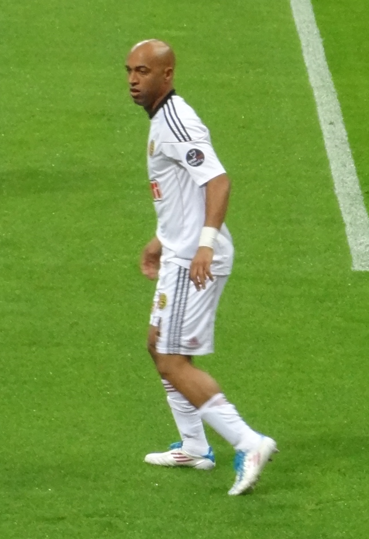 dede playin for eskişehir